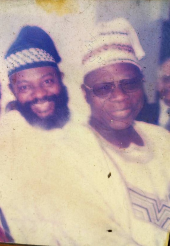 President Muhammadu Buhari with Chief Kila